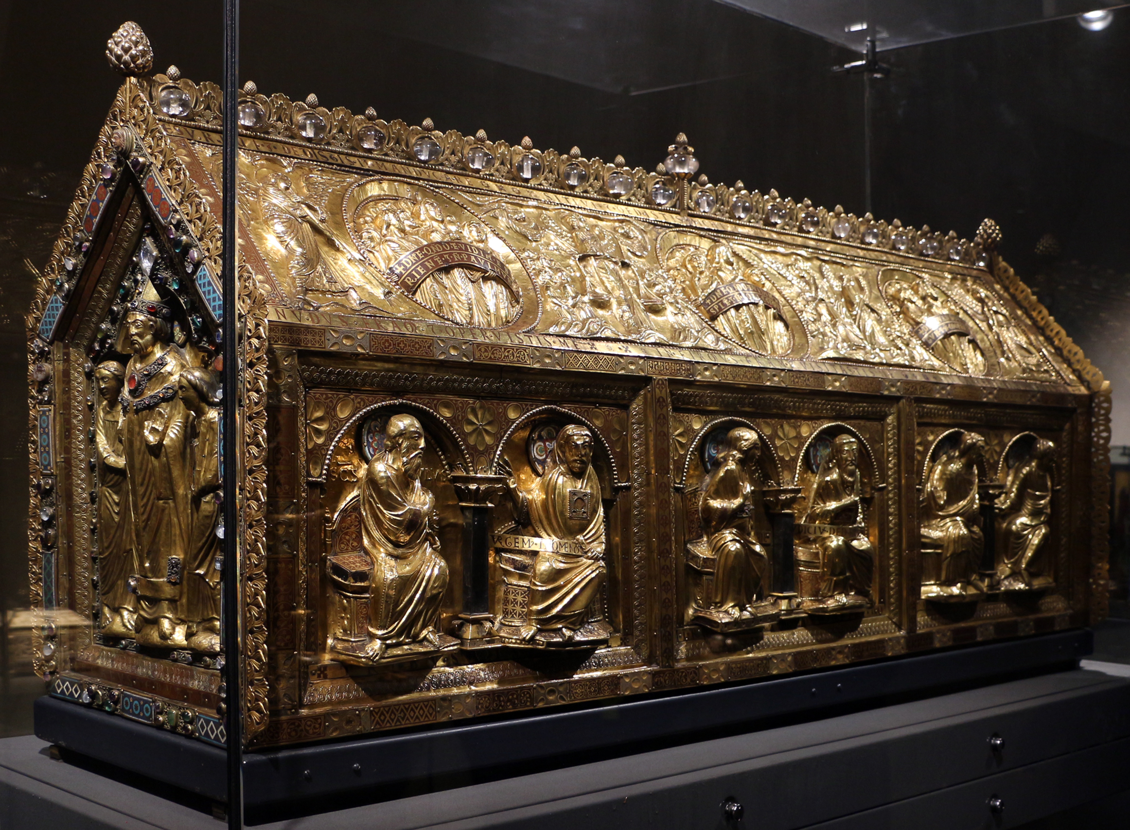 Reliquary chest of Saint Servatius